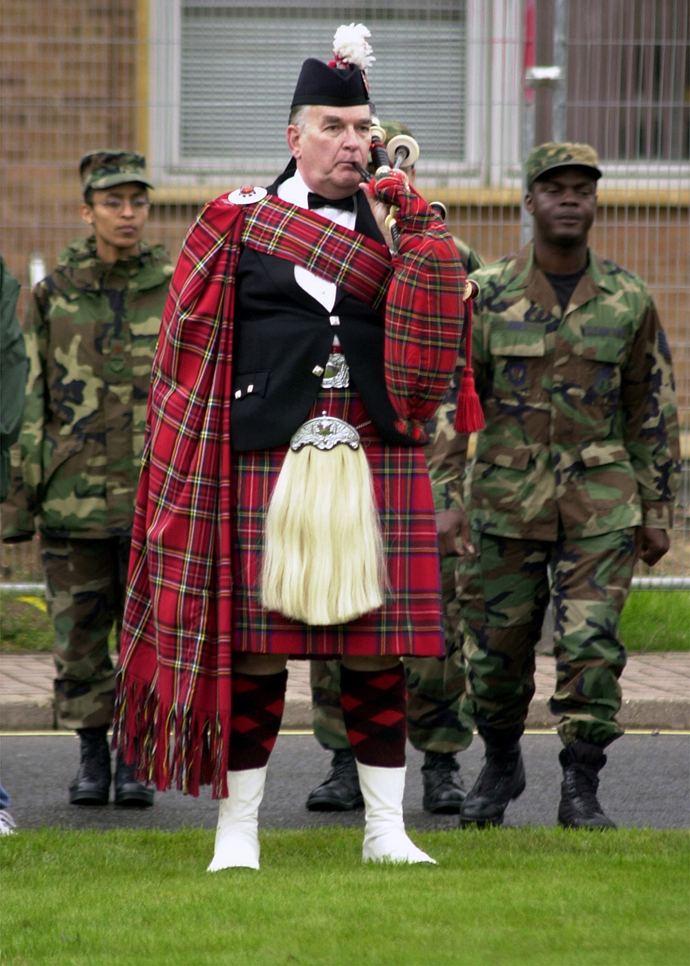 A bagpiper in Stewart Clan tartan kilt plays the song "Amazing Grace" during a 9/11 memorial service at RAF Lakenheath